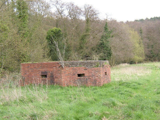 Pill Box near Waverley Abbey House, Farnham. Another relic of the Second World War. This is near to the entrance to Waverley Abbey.